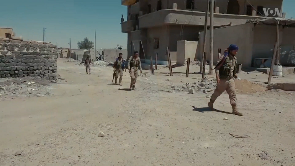 SDF fighters in Raqqa.